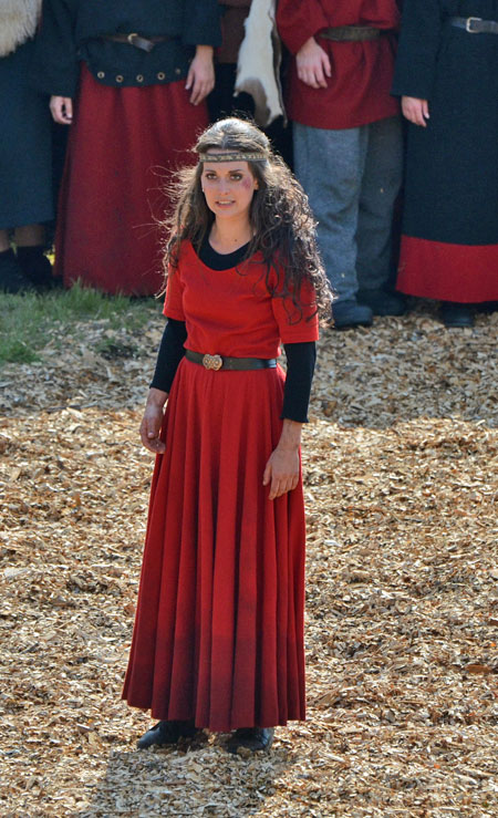 Heidi Ruud Ellingsen as Unn den fagre at the "Herøyspelet Kongens Ring 2013"